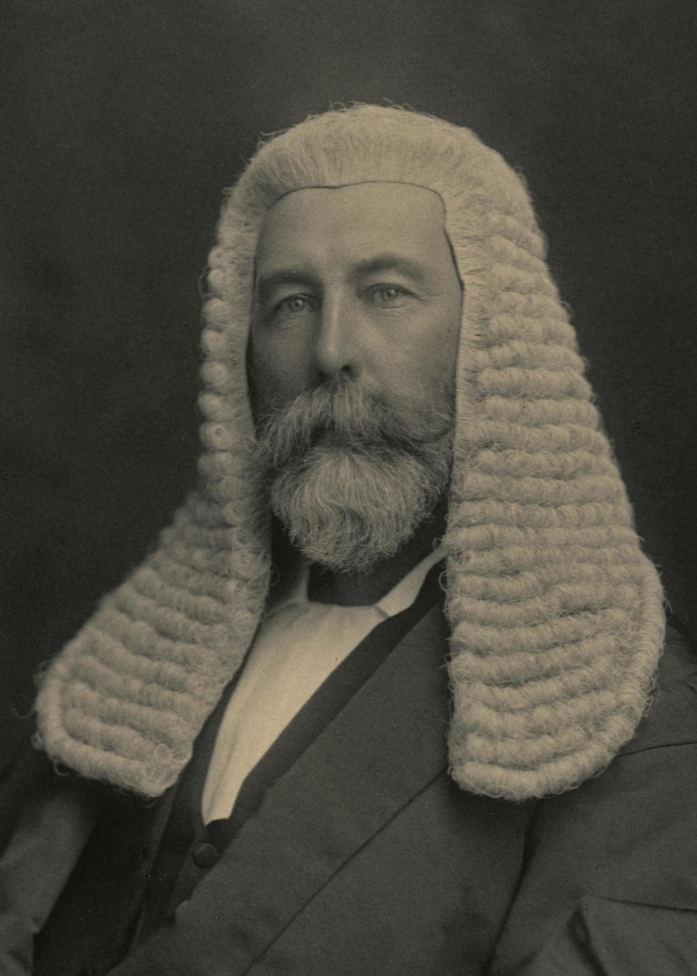 Richard Edward O'Connor, Justice of the High Court of Australia, in judicial regalia